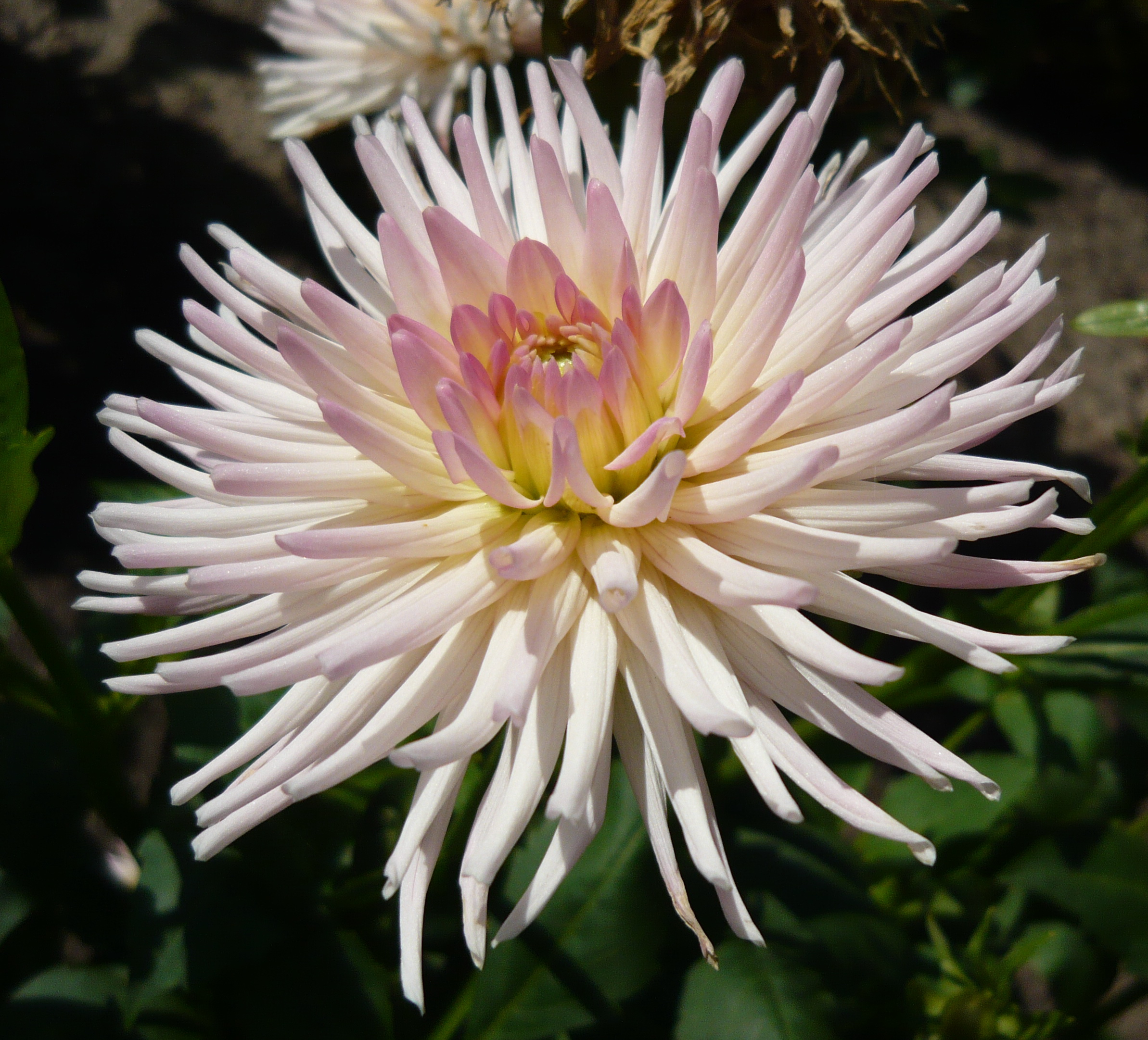 Cactus Dahlia 'Star Elite', Ruigrok 1994 (The Netherlands); Sport of 'Alfred Grille'